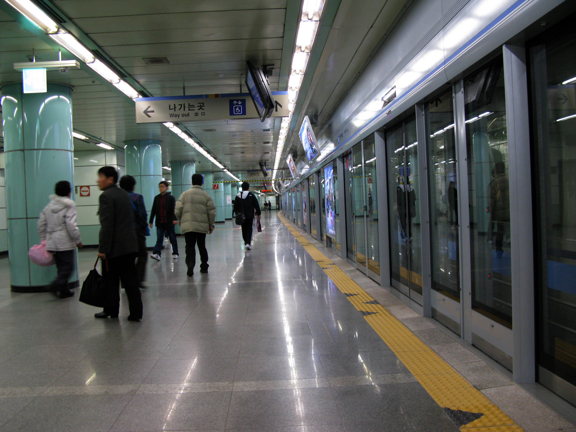 Incheon Subway Line 1 Incheon Bus Terminal Station